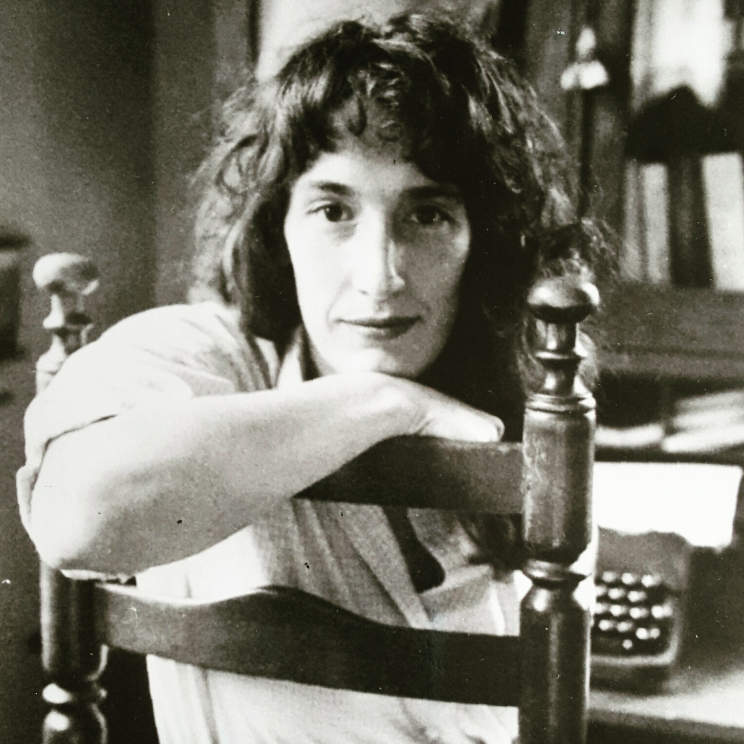 Alex Finlayson, Pounding Mill VA. 1983